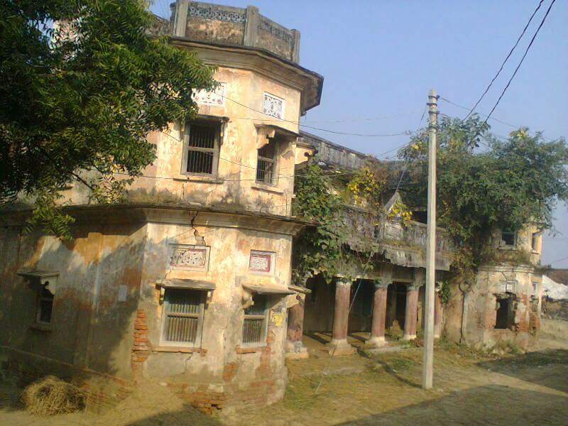 Maurha Fort